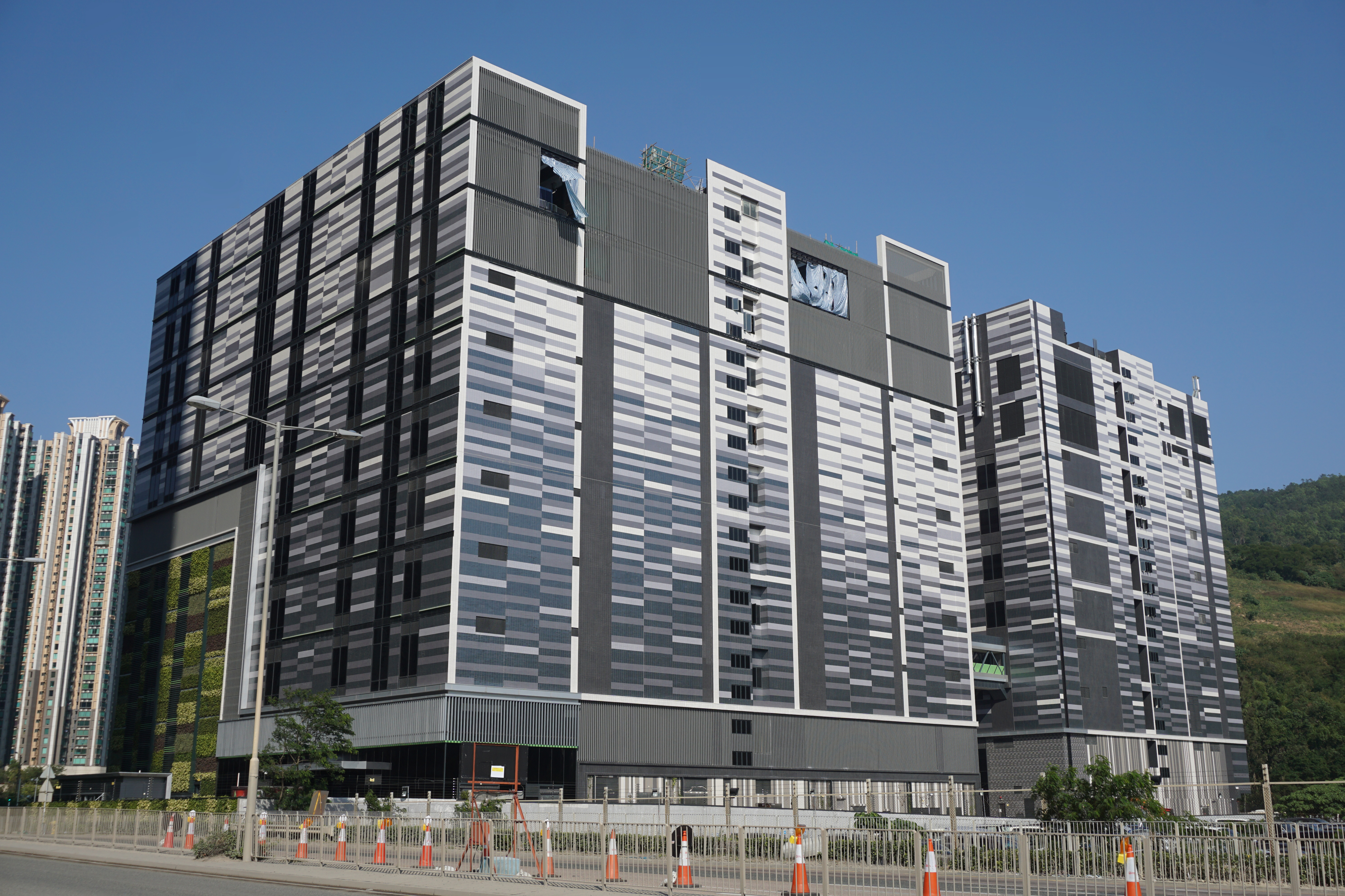 MEGA Plus in Tai Chik Sha, Hong Kong.